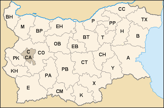 License plate codes of Bulgaria. Kroum removed names for use as a Template, image originally made by Lybomir Taushanov, improved by Todor Bozhinov and released under GFDL. Image:Bulgaria_Provinces_Map_Blank.png